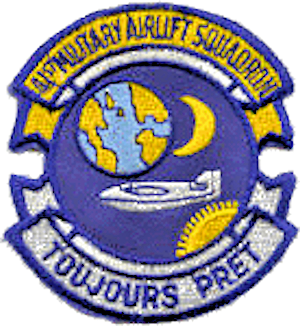 Emblem of the USAF 41st Military Airlift Squadron, MAC